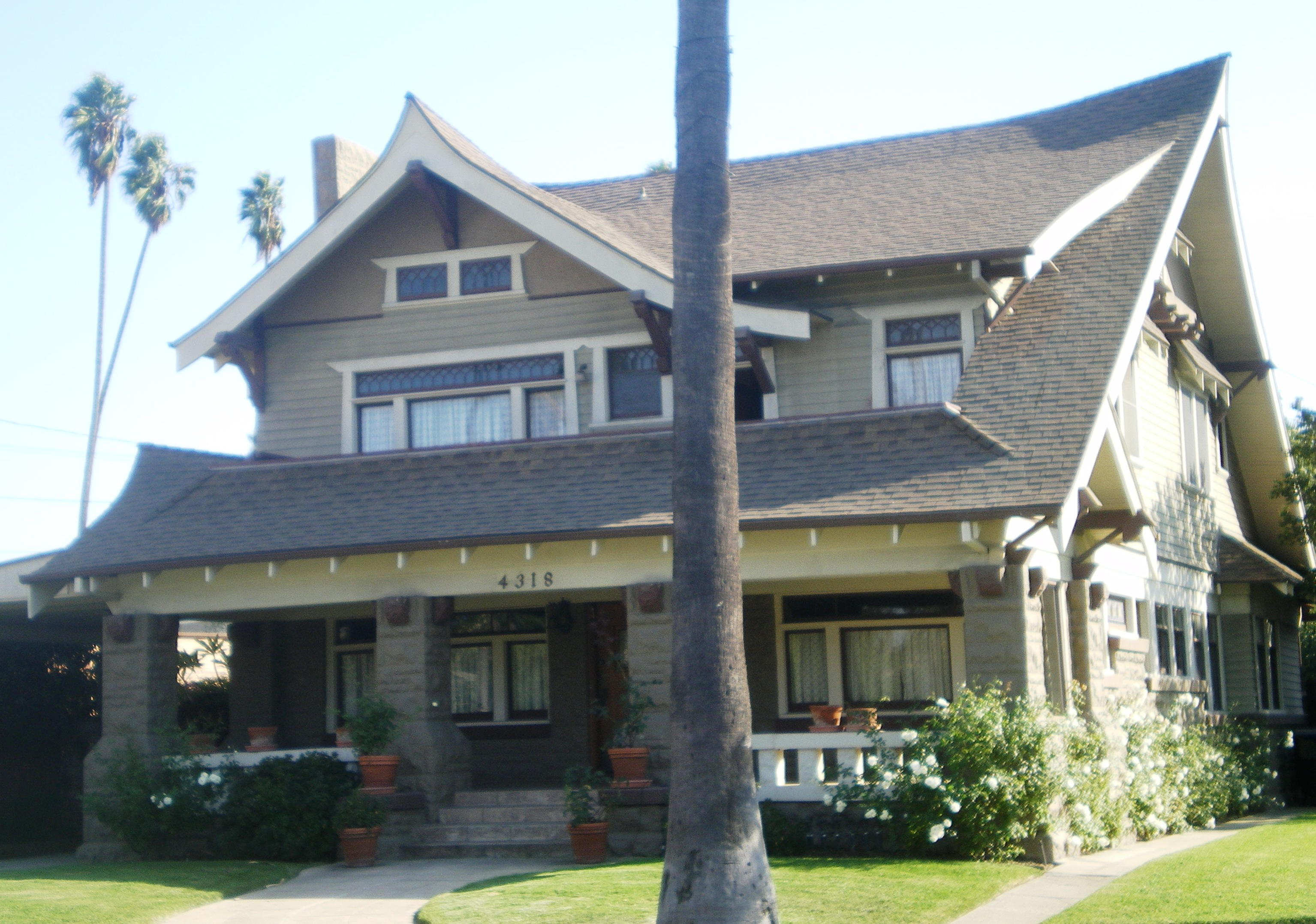 Craftsman Mansion, 4318 Victoria Park Place, Los Angeles, CA (HCM #654)